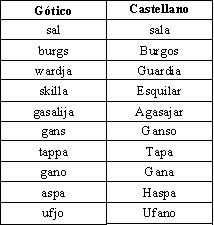 examples of gothic words adapted into spanish words because of influence of the visigoths